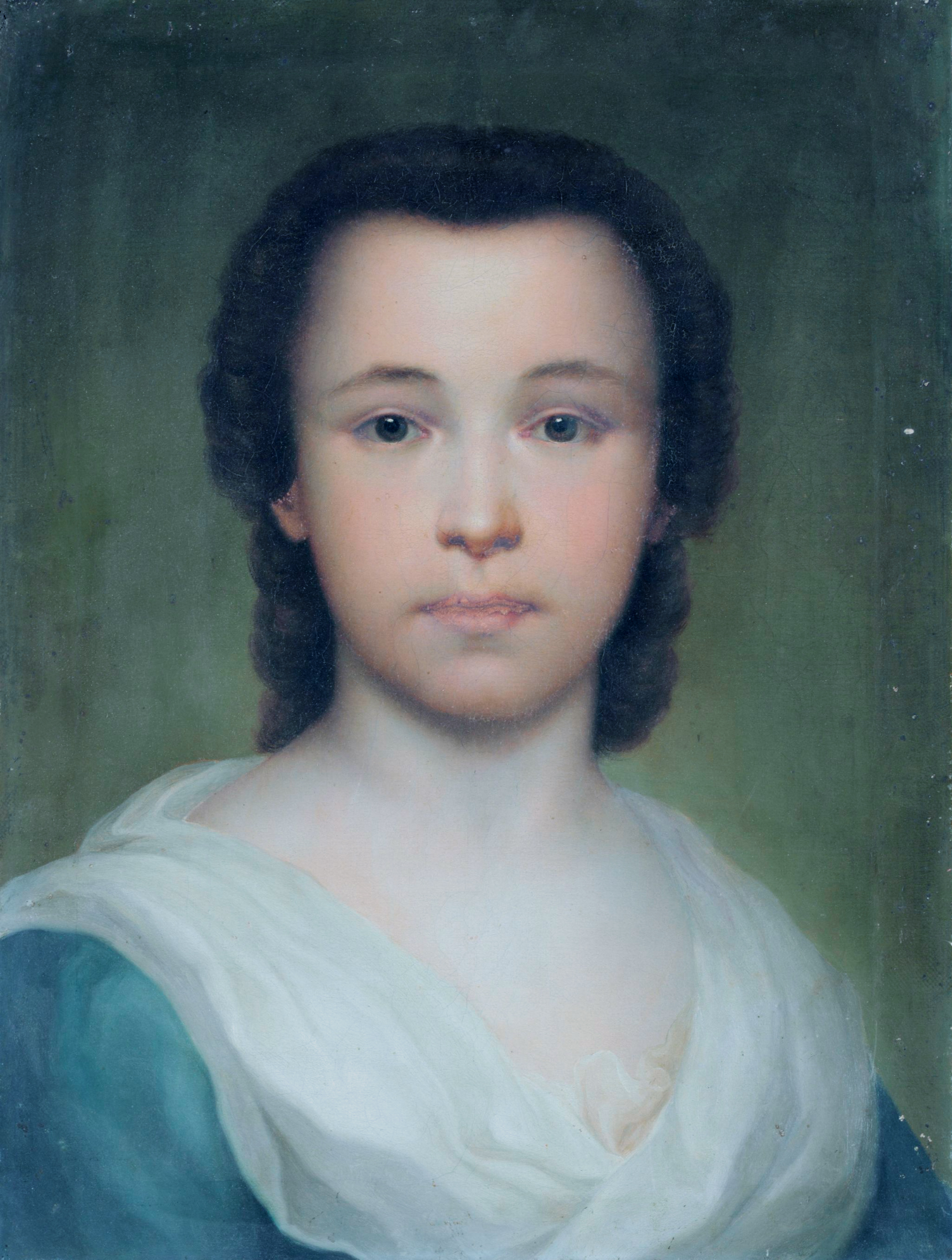 Juliane Charlotte Mengs oil on canvas Leinwand 44,2 x 33,3 cm circa 1748